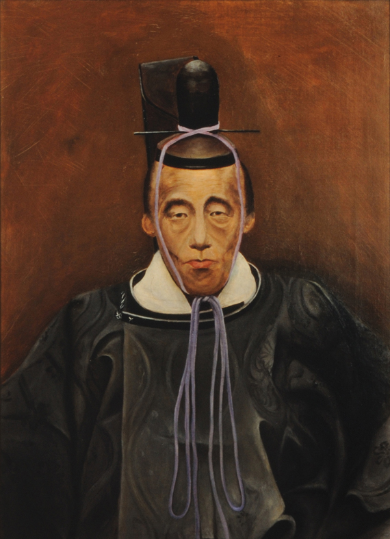 Portrait painting of Nabeshima Naomasa, by Kaneyuki Hyakutake who painted it in Rome in 1884. Possibly a painting based on a photo.